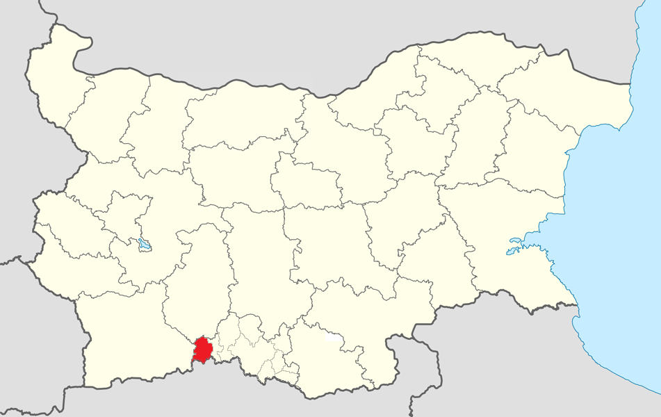 Location map of Dospat Municipality within Bulgaria and Smolyan province